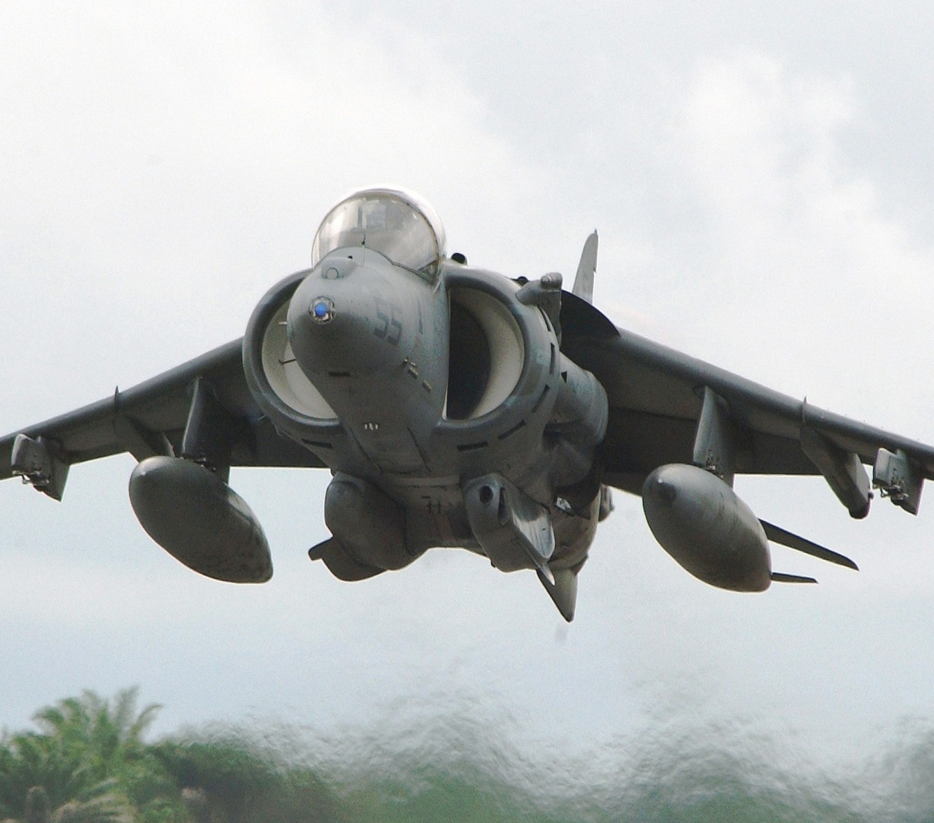 Cropped version of AV-8B_Harrier_taking_off_in_Sierra_Leone_-_May_2006_(Defense_Visual_Information_Center,_USMC,_USDoD).jpg, cropped and adjusted to highlight the GAU-12 Equalizer mounting on the aircraft's left underside. The pod on the aircraft right underside holds ammunition for the cannon the the aircraft left underside